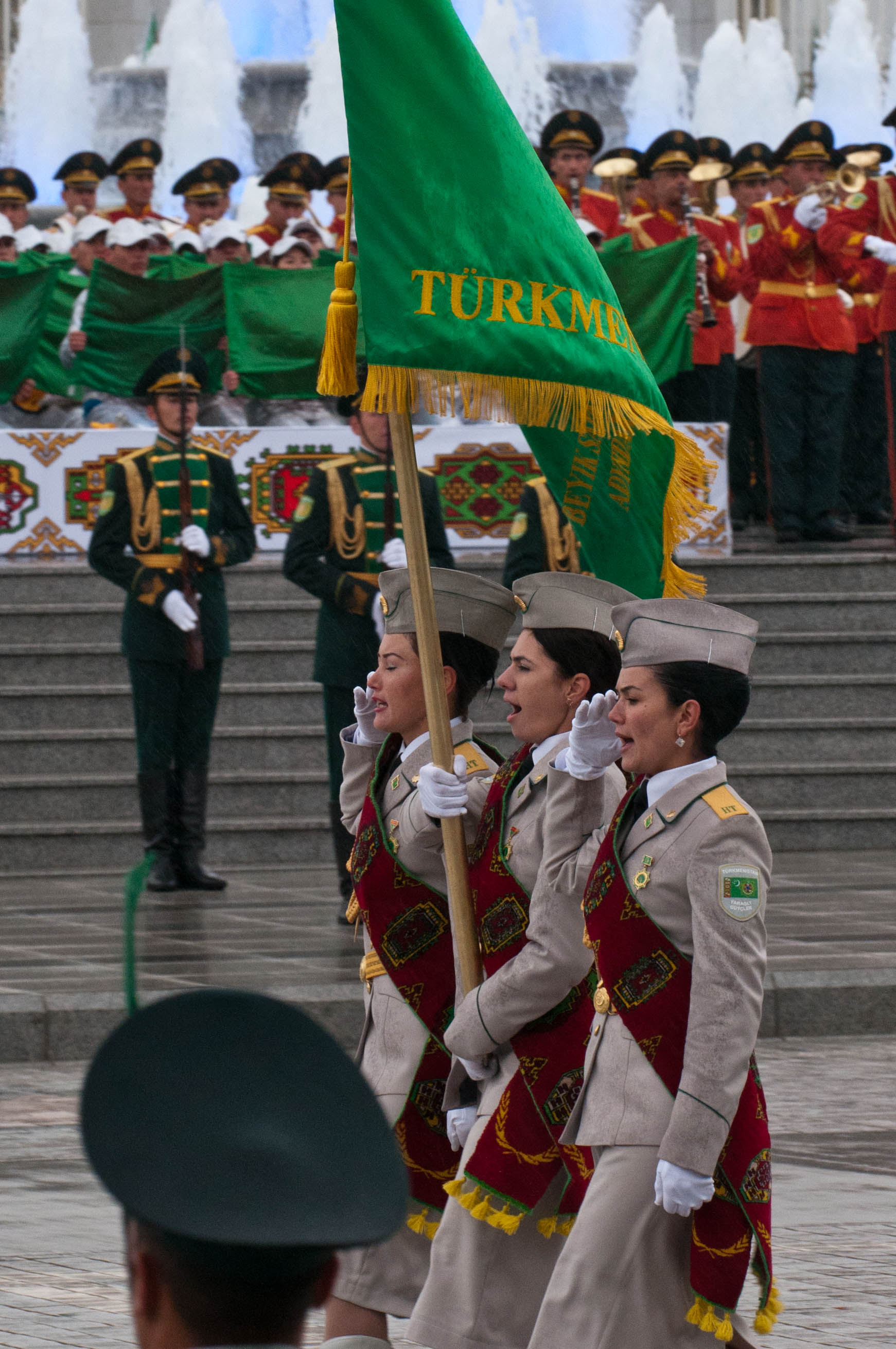 Celebrating the 20th year of independence in Turkmenistan